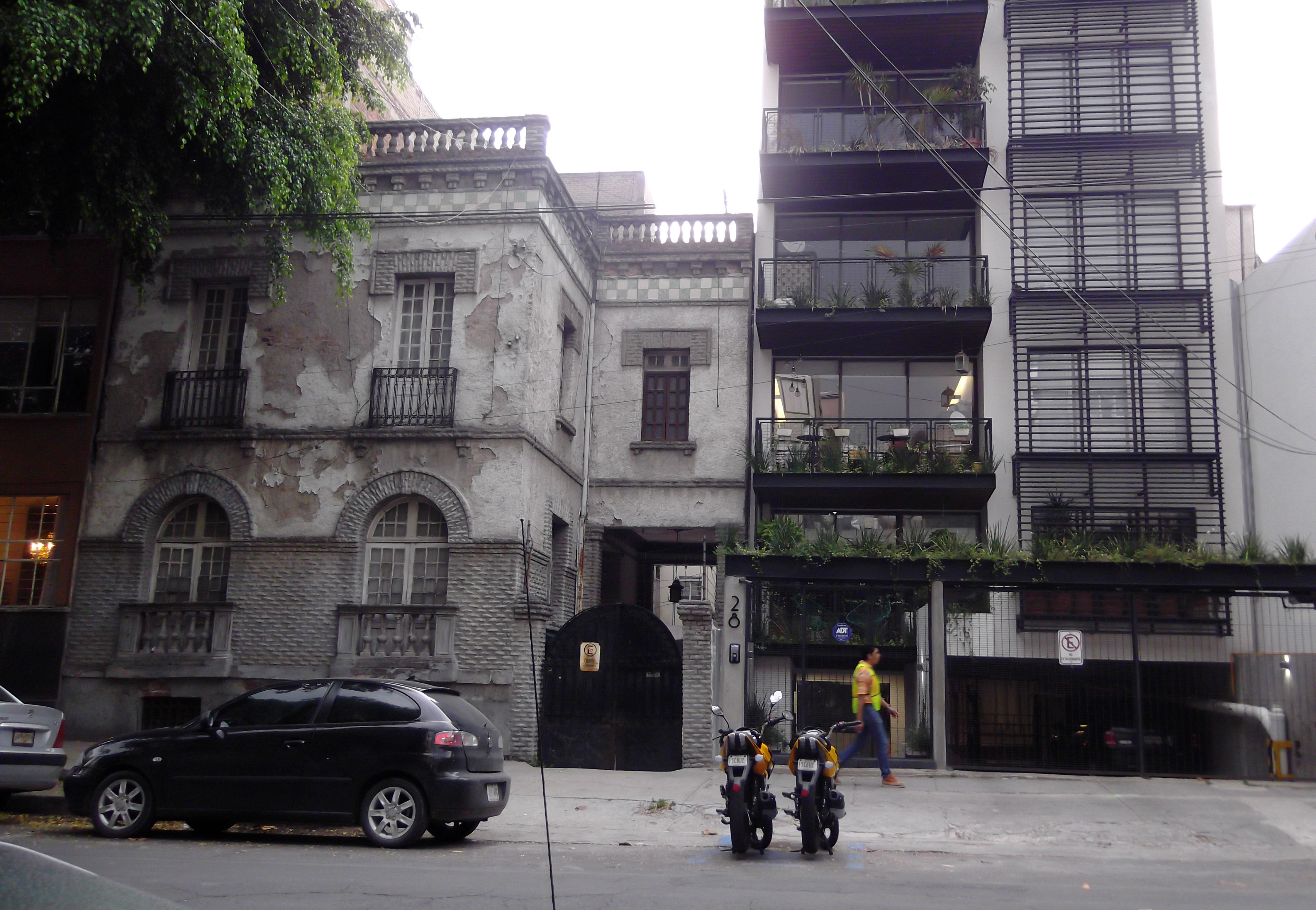 A 1920's neoclassical style house next to a loft's tower in Mexico City's Roma Norte neighborhood, which is under gentrification and repopulation from 2000